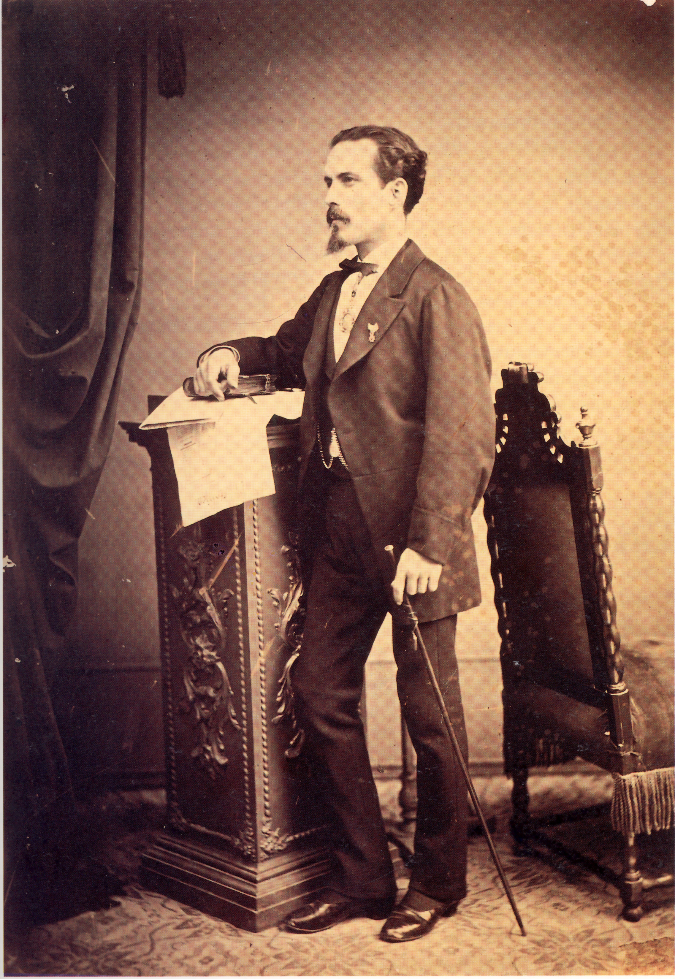 Fotografia de Rafael Romero Barros en sus primeros momentos en Córdoba.